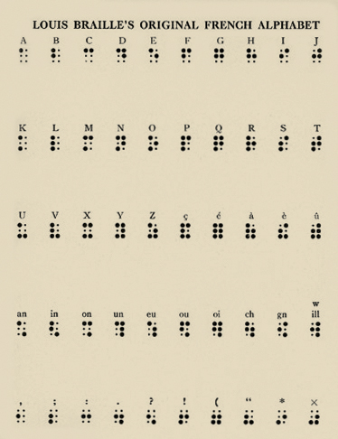 The original braille code for the French language, as devised by Louis Braille c.1824.